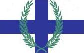 Historical flag of Thessaly region, used during the Greek War of Independence (1821-1830), designed by Anthimos Gazis.